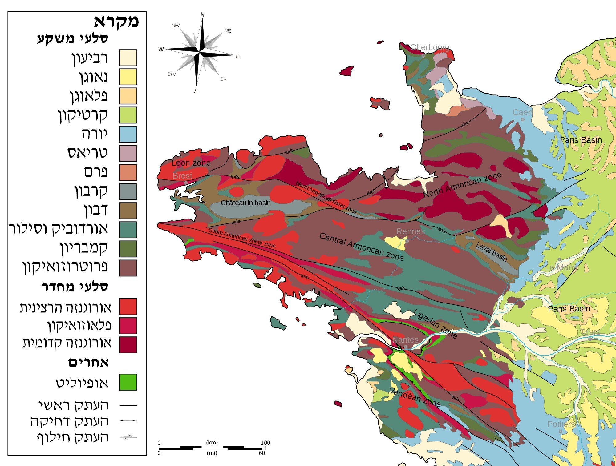 Geologic map of the Armorican Massif (NW France). Based on: *Service Géologique National; 1996: Carte géologique de la France au millionième, Éditions BRGM (6th ed.), Paris *Service Géologique National; 1968: Carte géologique de la France au millionième, Éditions BRGM (5th ed.), Paris *Debelmas, J.; 1974: Géologie de la France, 1: vieux massifs et grands bassins sédimentaires, Doin éditeurs, Paris, ISBN 2-7040-0011-5 *Béthune, P. de & Bouckaert, J.; 1968: Atlas van België / Atlas de Belqique, Militair Geografisch Instituut / Institut Géographique et Militaire, Brussels.